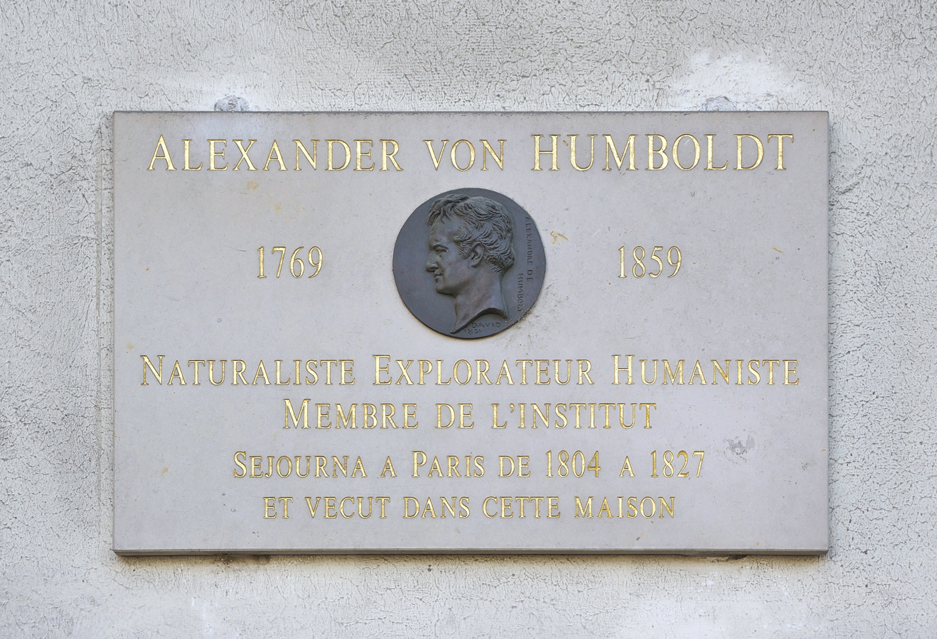 Here-lived plaque in tribute to Alexander von Humboldt, on the wall of the house where he lived in Paris, 3 Malaquais embankment in Paris. The medal is due to David d'Angers, in 1831.